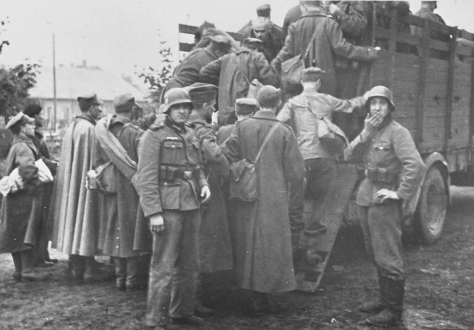 Polish soldiers captured are loaded on truck, September or October 1939.